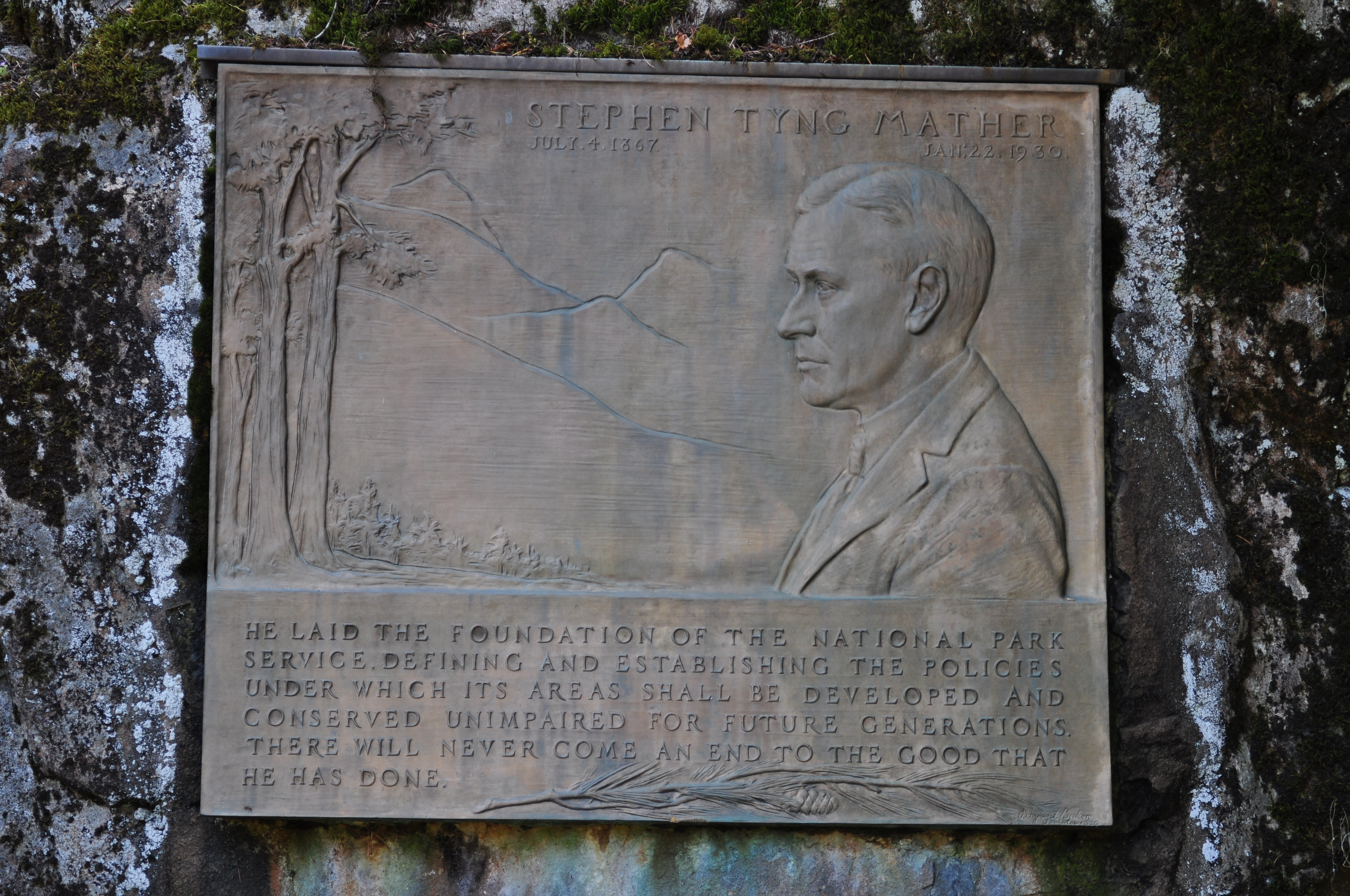 1930 plaque memorializing Stephen Tyng Mather, Longmire, Mount Rainier National Park. Part of the Longmire Historic District listed on the National Register of Historic Places.